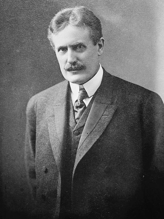 Subject: Myron Herrick (9 October 1854–31 March 1929) Description from the Library of Congress website: TITLE: Myron Herrick CALL NUMBER: LC-B2- 1272-4[P&P] REPRODUCTION NUMBER: LC-DIG-ggbain-06605 (digital file from original neg.) RIGHTS INFORMATION: No known restrictions on publication. MEDIUM: 1 negative : glass ; 5 x 7 in. or smaller. CREATED/PUBLISHED: [no date recorded on caption card] CREATOR: Bain News Service, publisher. NOTES: Forms part of: George Grantham Bain Collection (Library of Congress). Title from unverified data provided by the Bain News Service on the negatives or caption cards. General information about the Bain Collection is available at Temp. note: Batch two loaded. FORMAT: Glass negatives. REPOSITORY: Library of Congress Prints and Photographs Division Washington, D.C. 20540 USA DIGITAL ID: (digital file from original neg.) ggbain 06605 CONTROL #: ggb2004006605